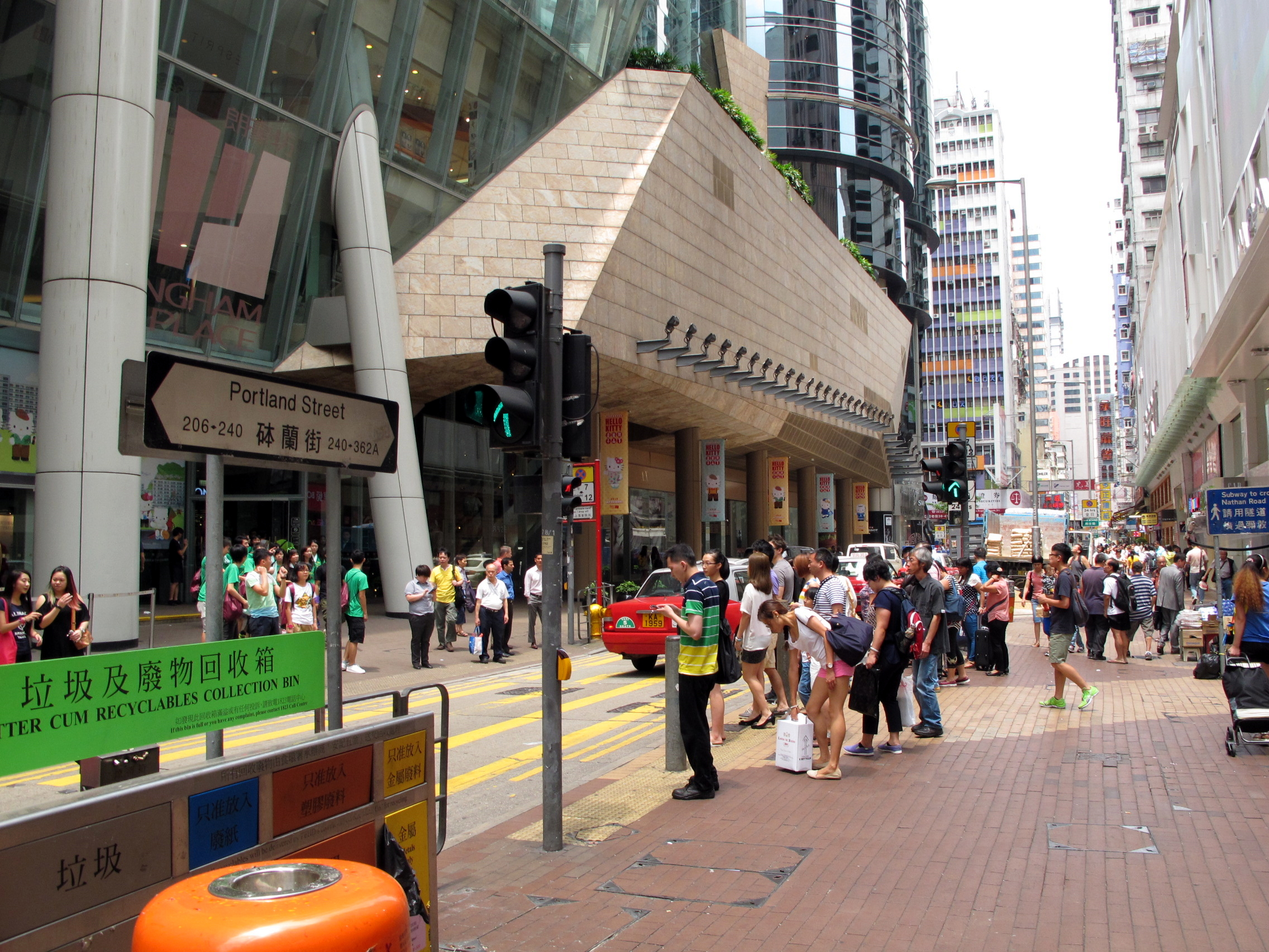 Portland Street 砵蘭街